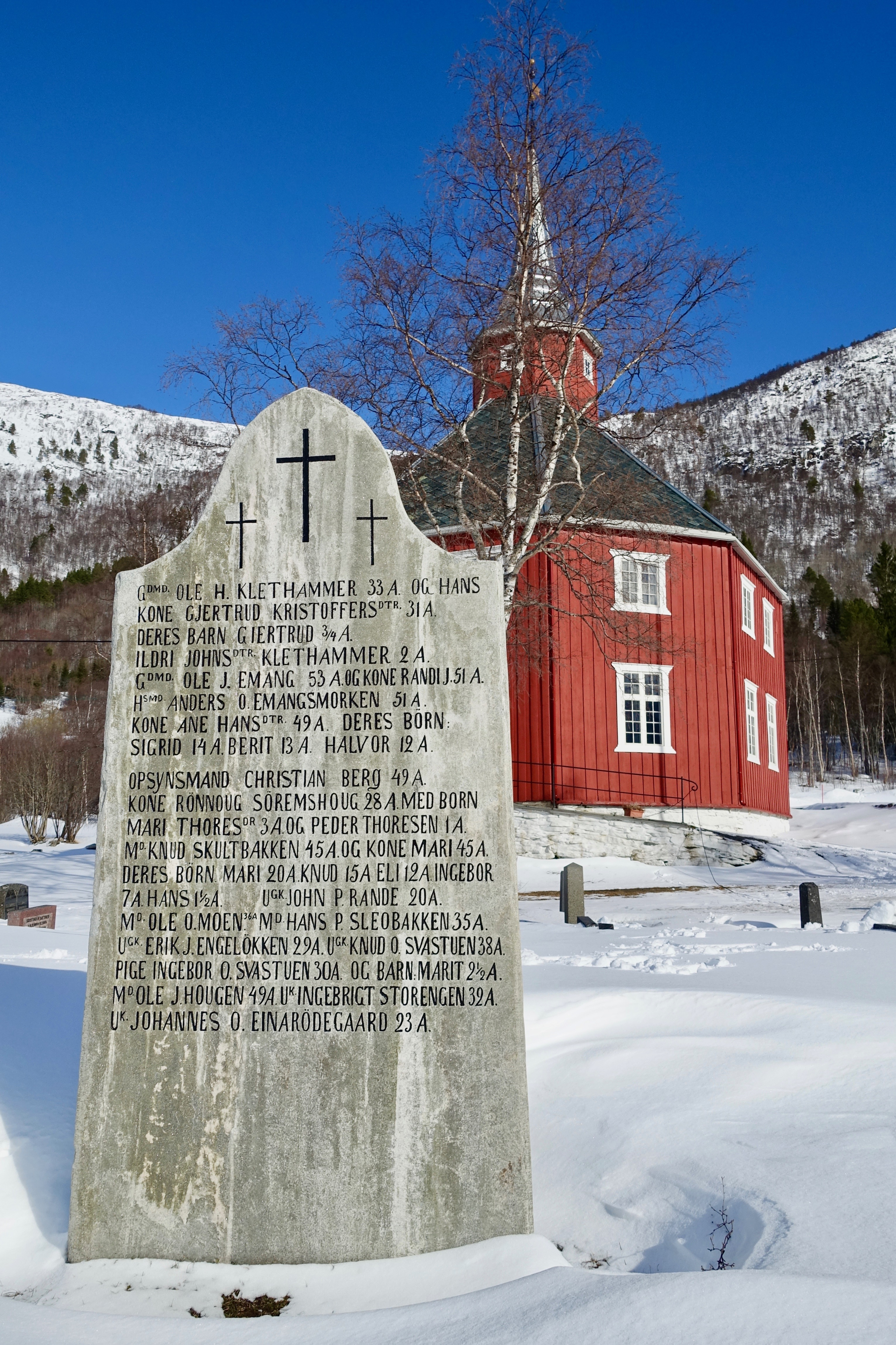 Lønset kirke/kyrkje, octagonal wooden church built 1863, in Oppdal, Trøndelag, Norway. Memorial stone of the Kletthamran avalanche 1868-02-12 where 32 people died (Minnestein over Kletthamranskredet, Norgeshistoriens verste snørasulykke natt til 12. februar 1868). Snow, blue sky, etc.Photo 2019-03-19.